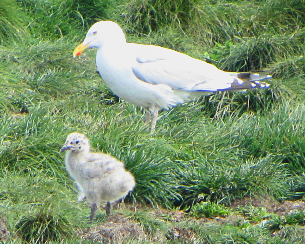 American Herring Gull (Larus smithsonianus) and chick, Elliston, Newfoundland and Labrador